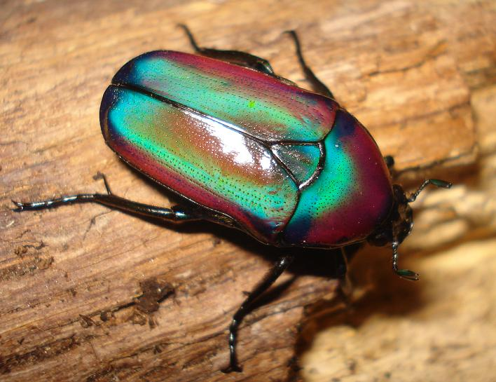 Chlorocala africana oertzeni